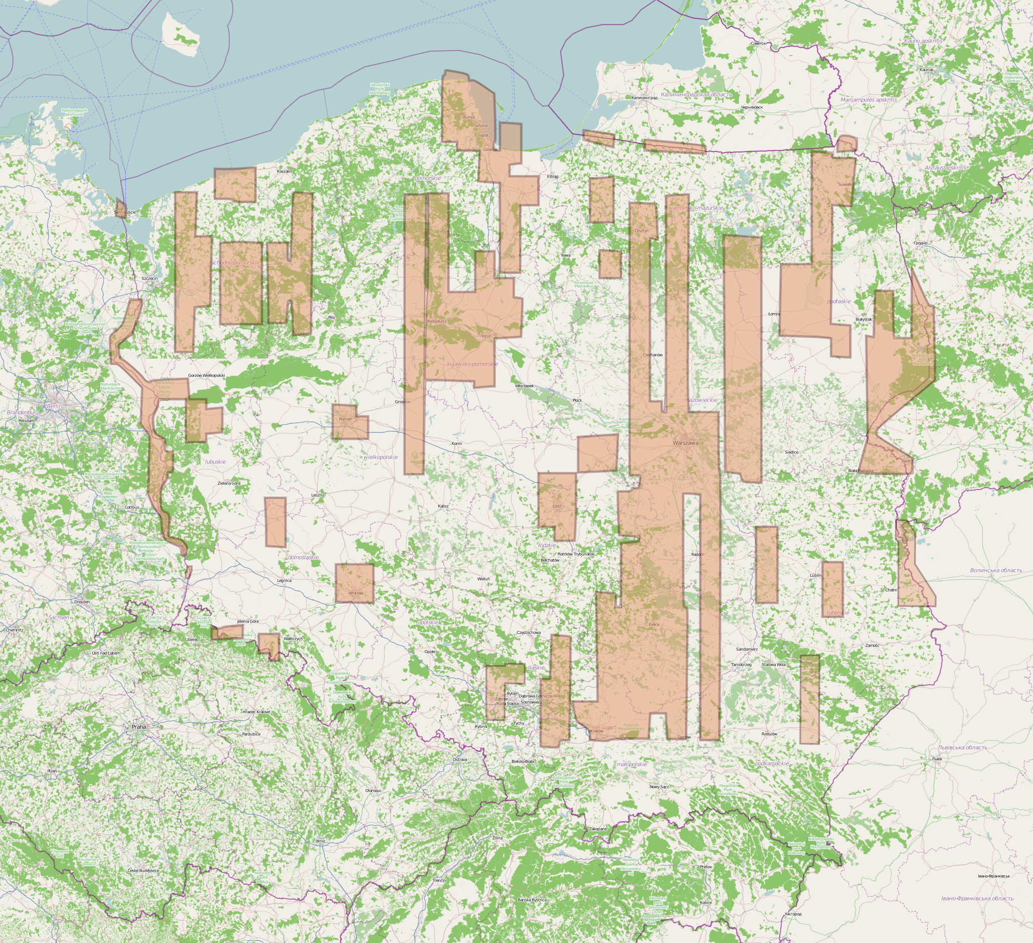 Bing Map's Aerial Imagery coverage in Poland.